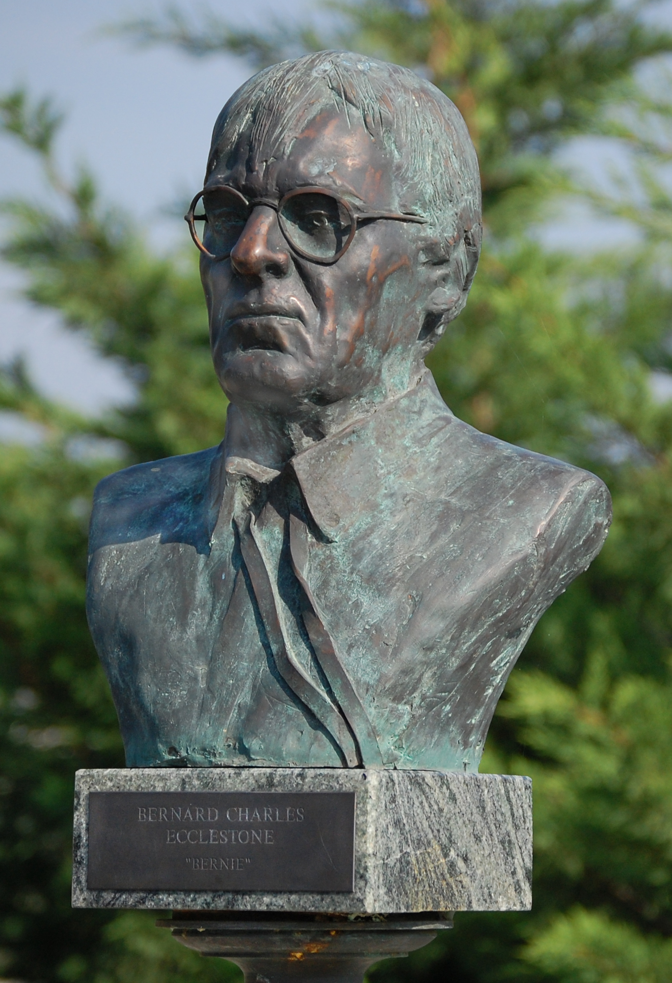 Bernie Ecclestone bronze bust by Sándor Krisztiáni and Gábor Mihály (2003 Bronze) in the Hungaroring Sculpture Park, Mogyoród, Pest County, Hungary.